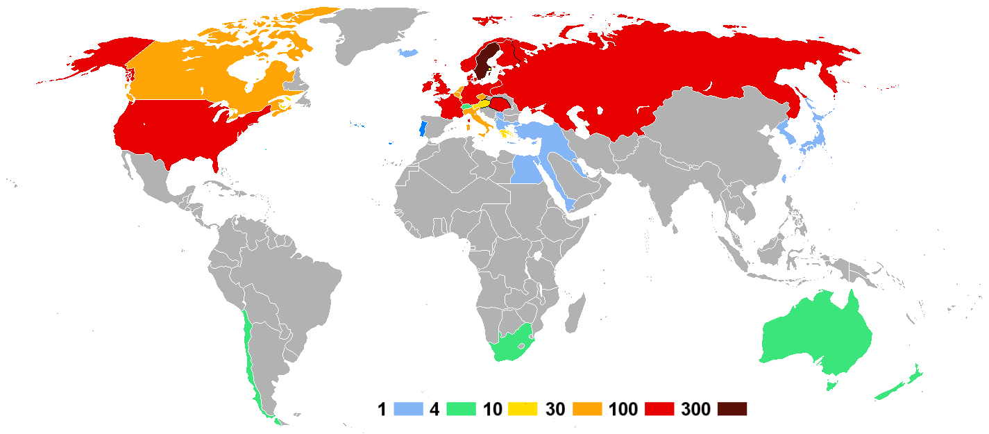 Countries that competed in the 1912 Summer Olympics by number of athletes. Derived from Image:1912_Summer_olympics_team_numbers.png and Image:BlankMap-World-1912.png.